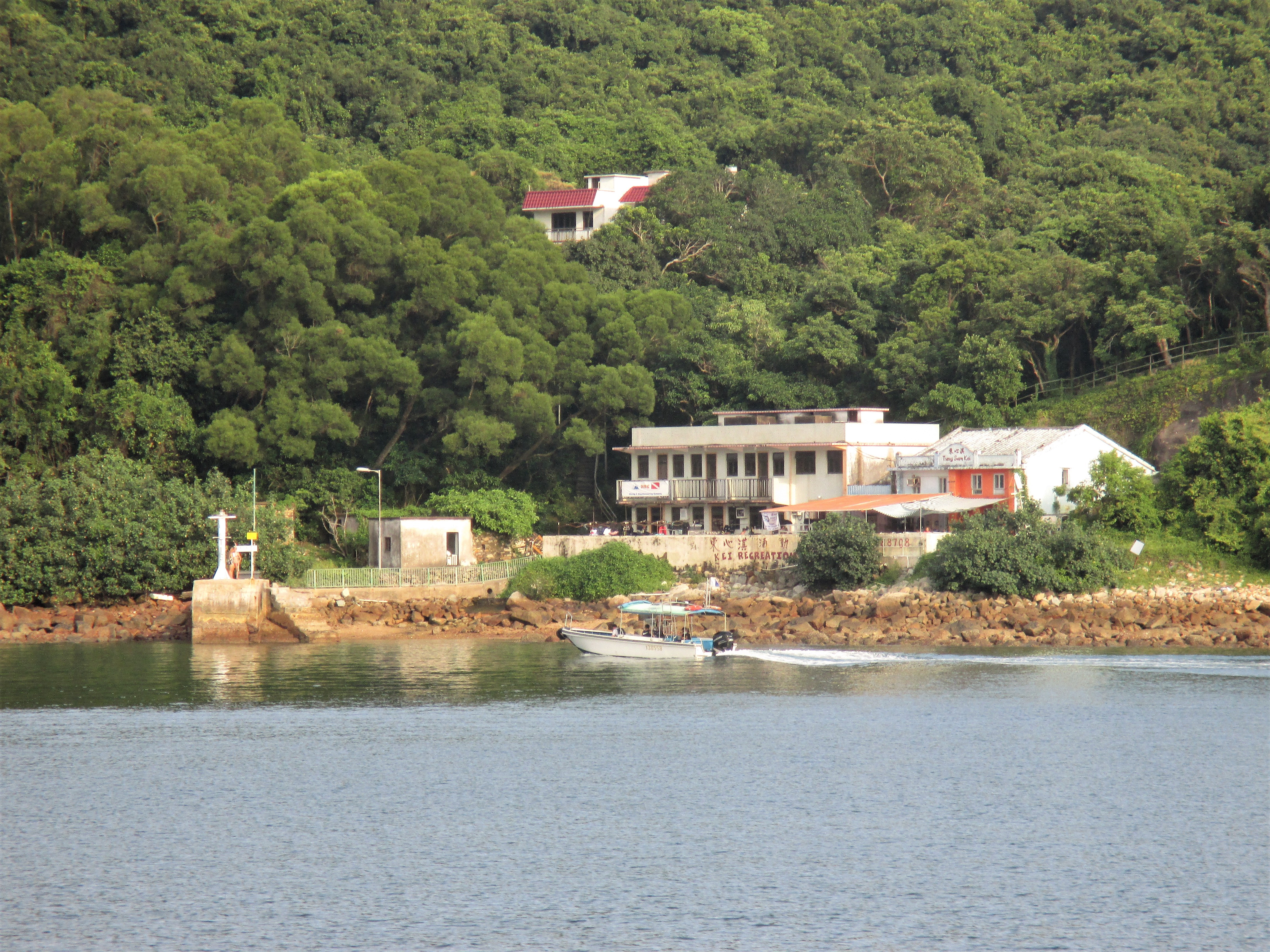 Tung Sam Kei